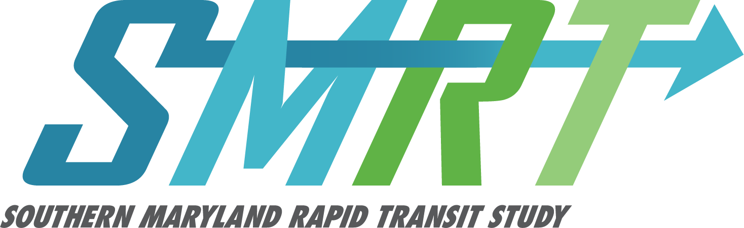 Logo for the Southern Maryland Rapid Transit line project.